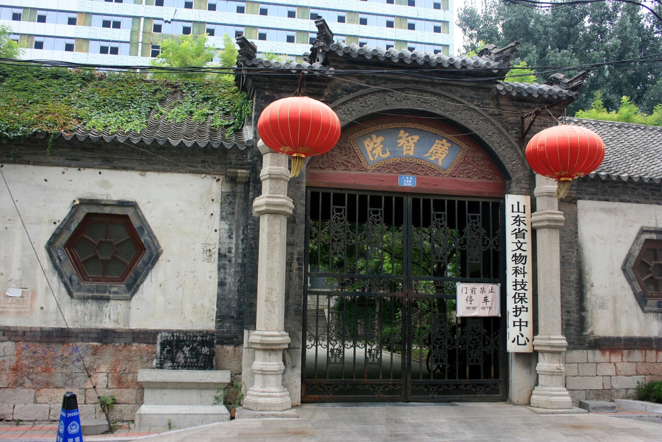 Photograph of the Guangzhi Yuan building at the Shandong University in Jinan, Shandong Province, China